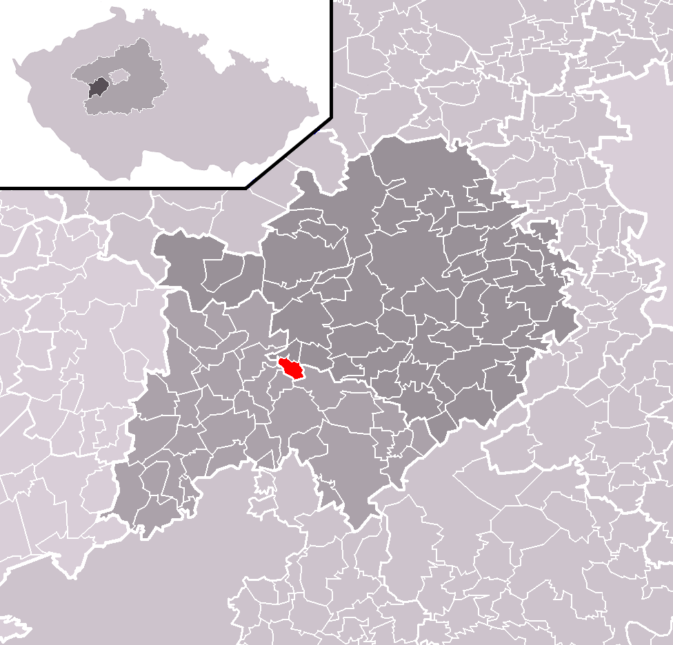 Location of Stašovmunicipality within Beroun District and administrative area of Beroun as a Municipality with Extended Competence.